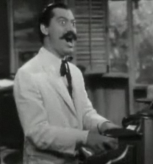 Cropped screenshot of Jerry Colonna from the trailer for the film Road to Singapore.